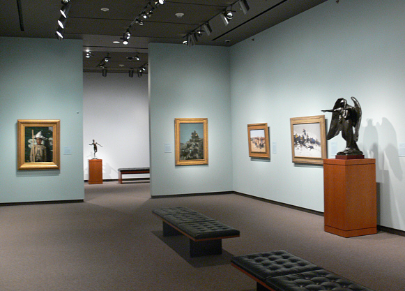 Amon Carter Museum, Fort Worth, Texas (Architect: Philip Johnson)